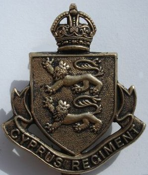 Cap badge of the Cyprus Regiment, now defunct.